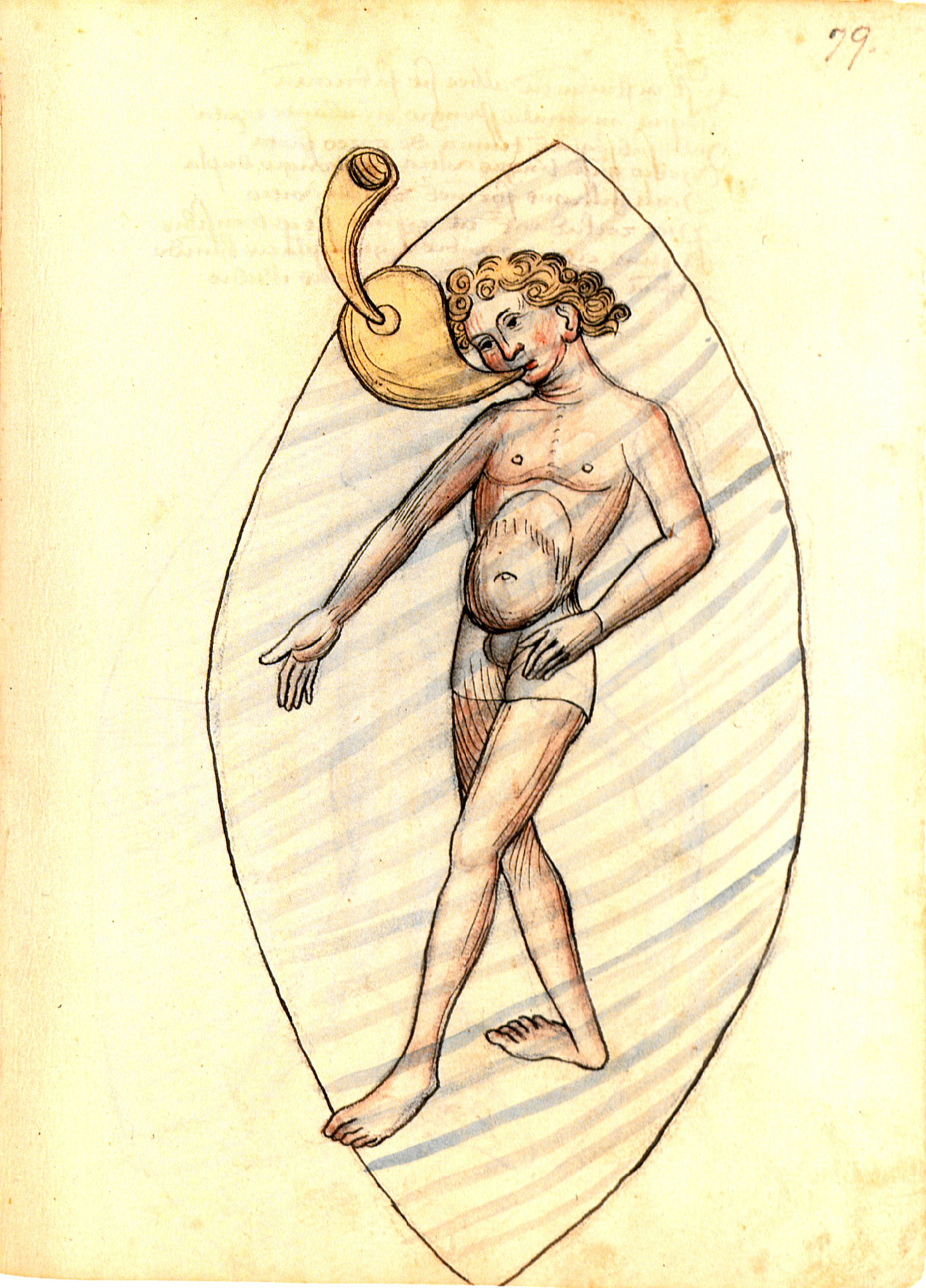 Diver with snorkel